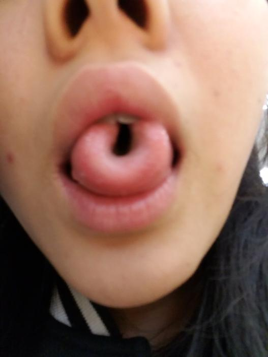 Depicts typical tongue roll, used for tongue rolling examples.